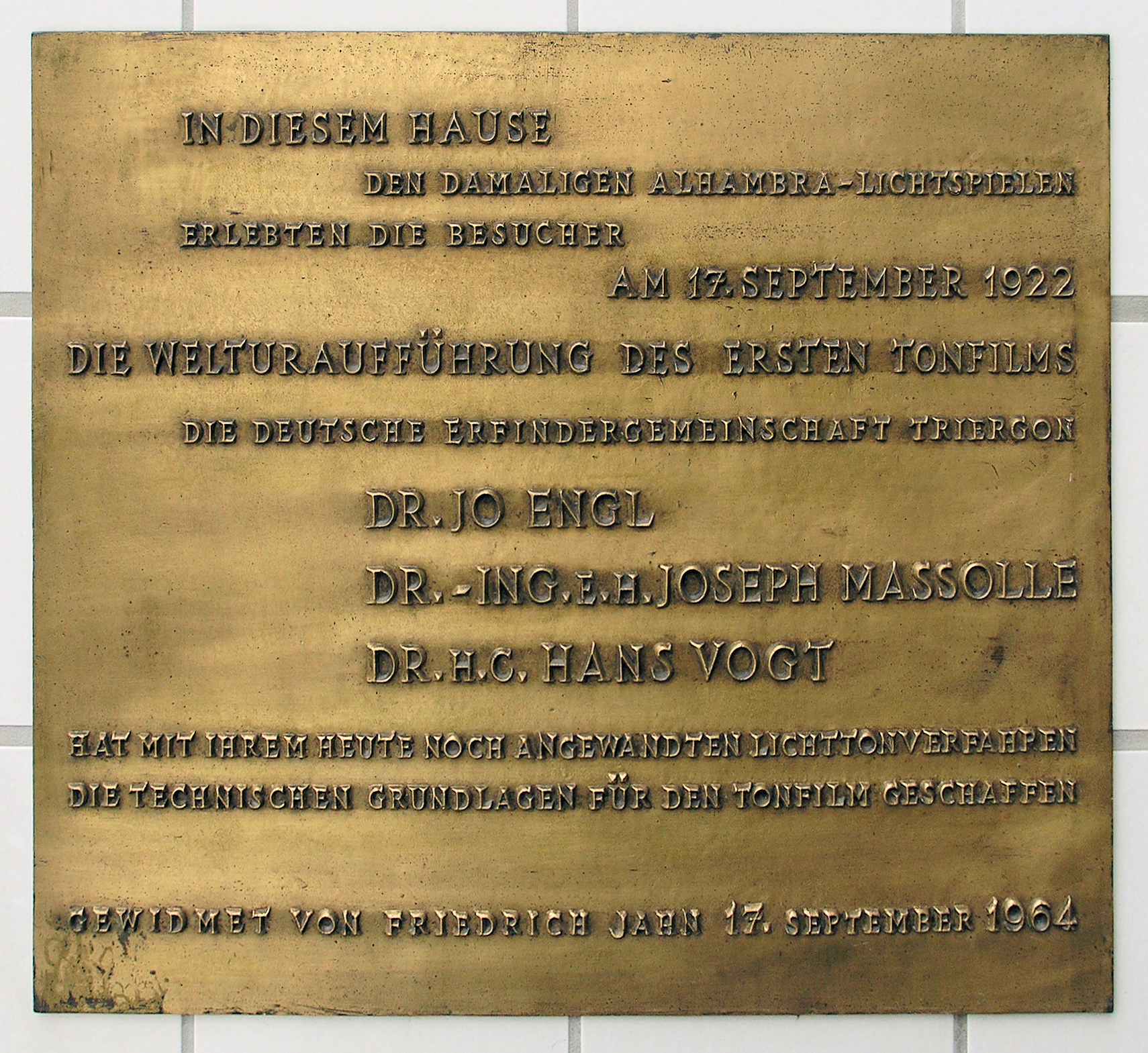 Memorial plaque, Alhambra Lichtspiele, Kurfürstendamm 68, Berlin-Charlottenburg, Germany